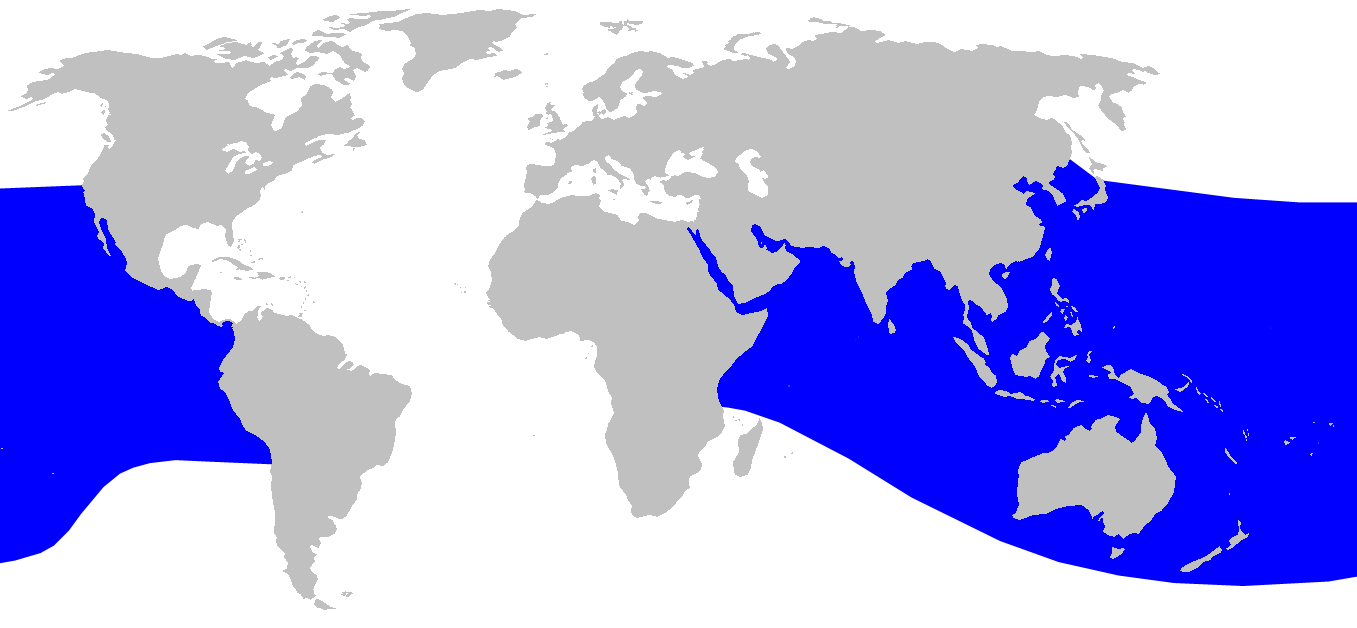 Distribution of Mesoplodon ginkgodens